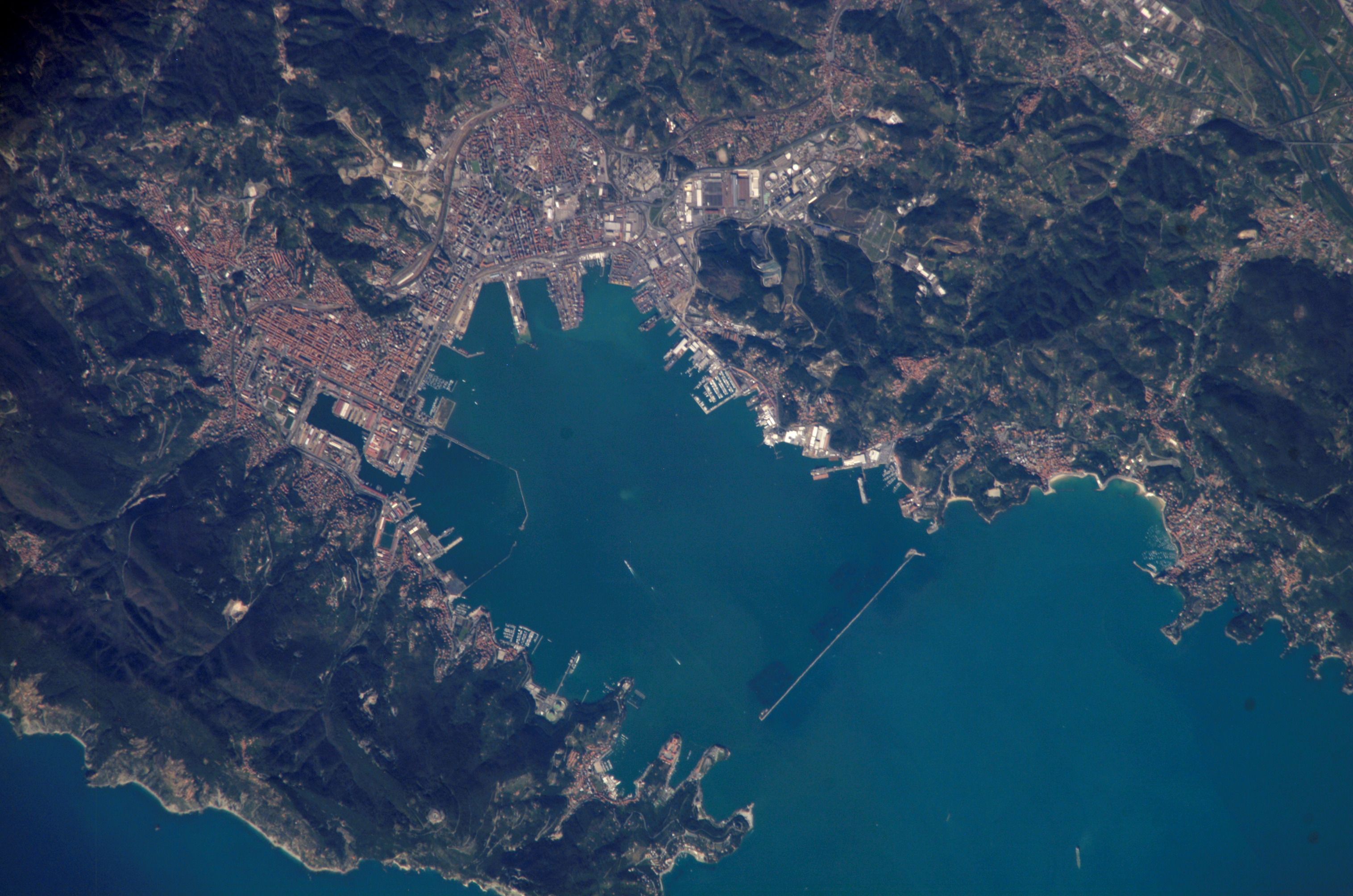 La Spezia, Italy, from NASA ISS mission Pictures Mission: ISS014 Roll: E Frame: 17041 Mission ID on the Film or image: ISS014 Country or Geographic Name: ITALY Center Point Latitude: 44.1 Center Point Longitude: 9.9